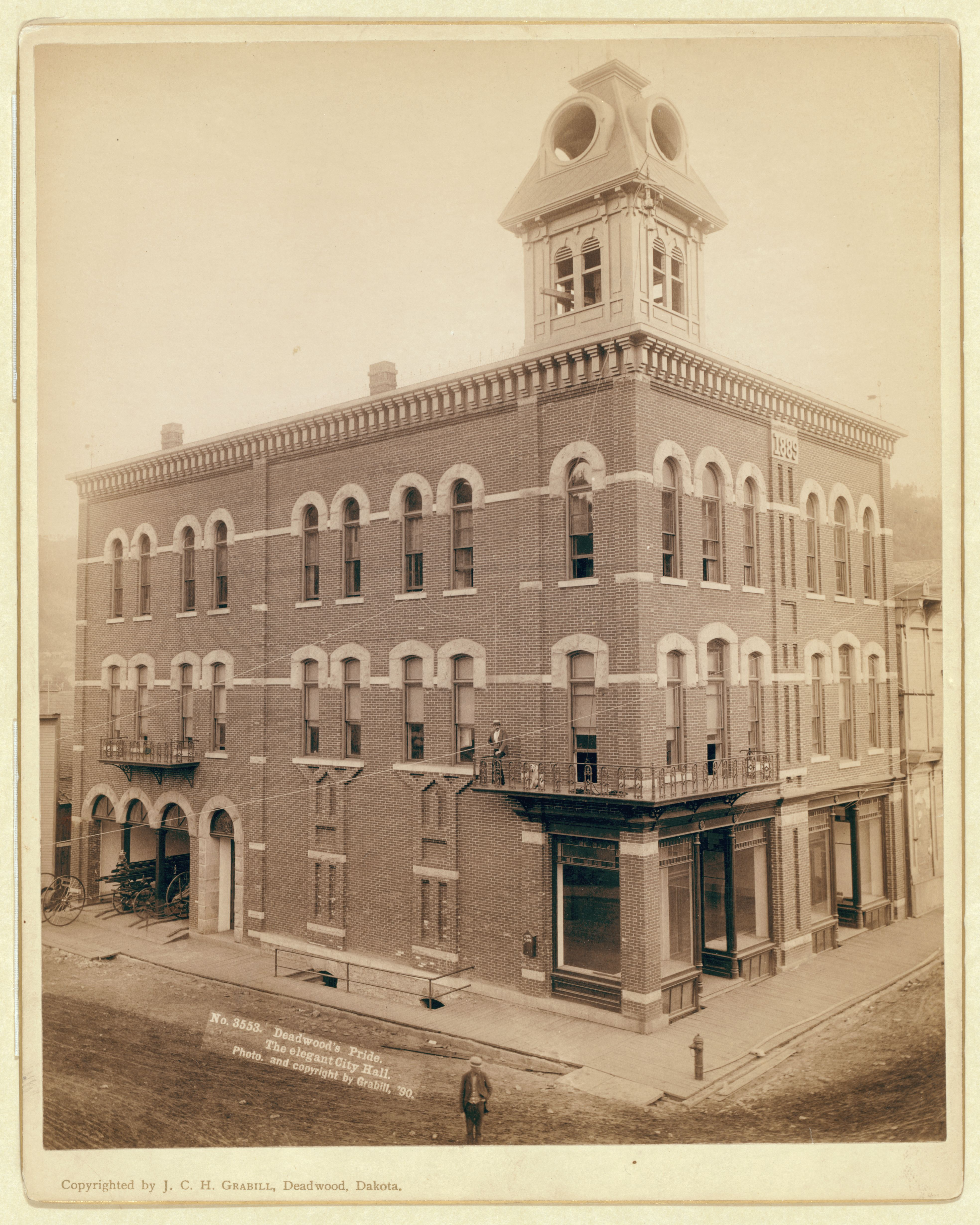 Original title Deadwood's pride. The elegant City Hall